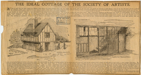 Cottage Design by Elspeth Douglas McClelland in 1905 that was built. 'THE IDEAL COTTAGE OF THE SOCIETY OF ARTISTS', about entry number 85 in the 1905 Cheap Cottages Exhibition, 106 Wilbury Road